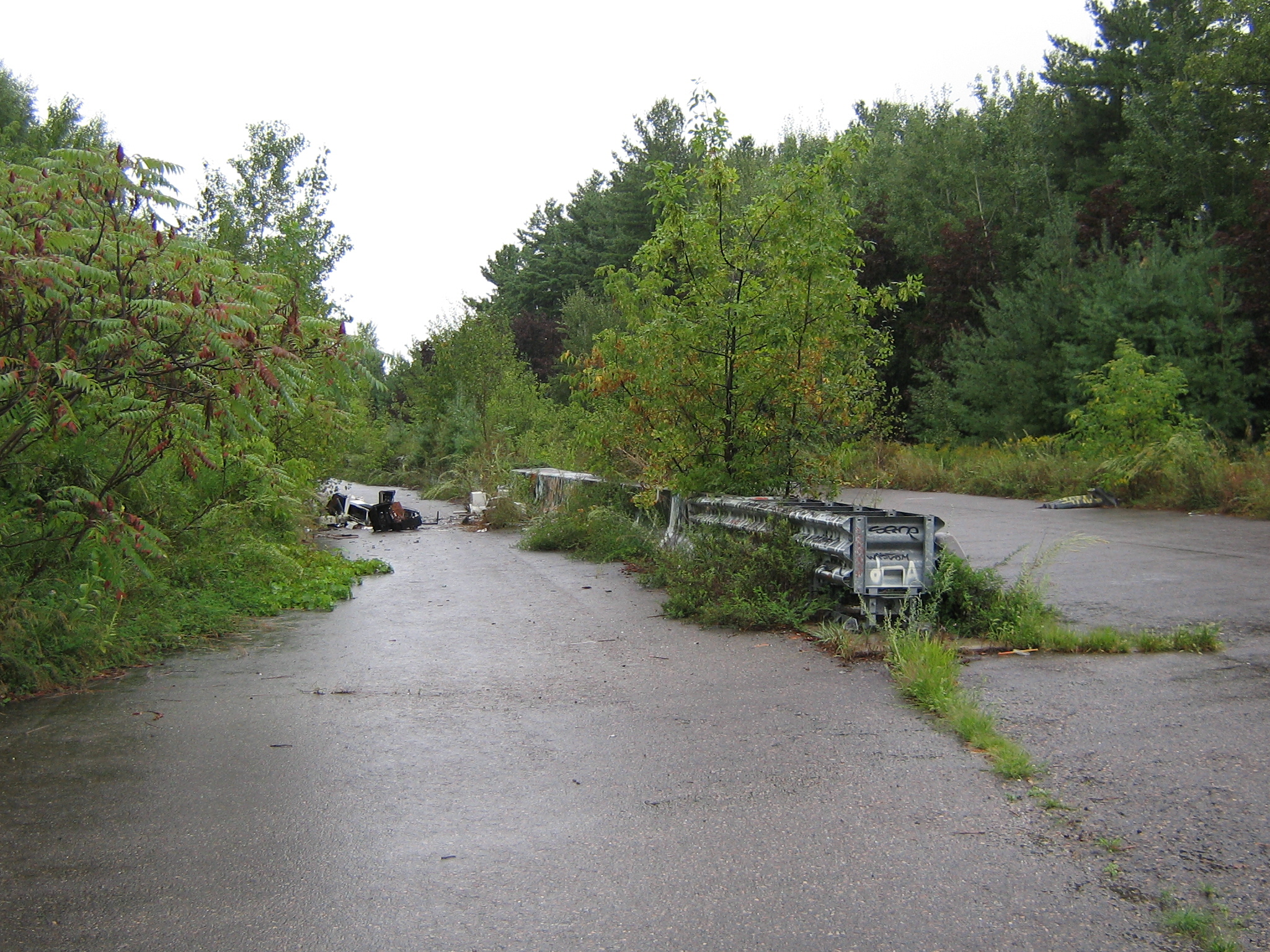 An unused extension of Interstate 189 in Burlington, Vermont, looking south.